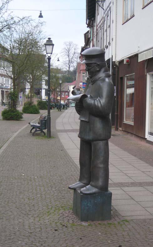 Bode, the speaker, Uslar, Germany.